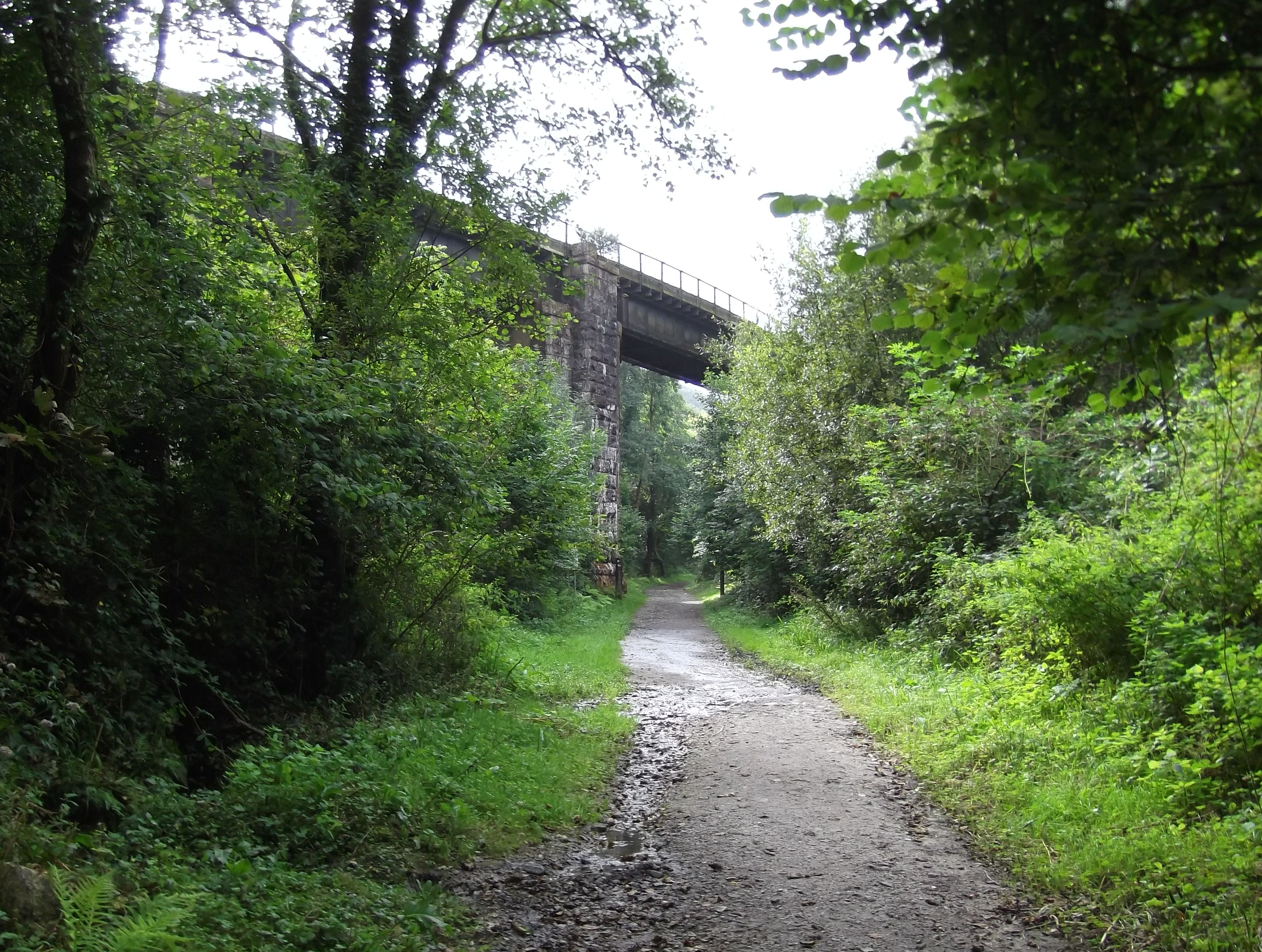 Pontsmill Cornwall; 1874 CMR line (and present-day line) crossing the 1867 Rock Mill Quarry line (and later kiln line) at 572563